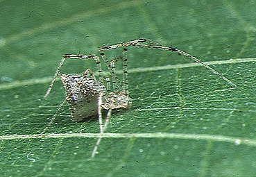 female Chrysso pulcherrima from Okinawa.